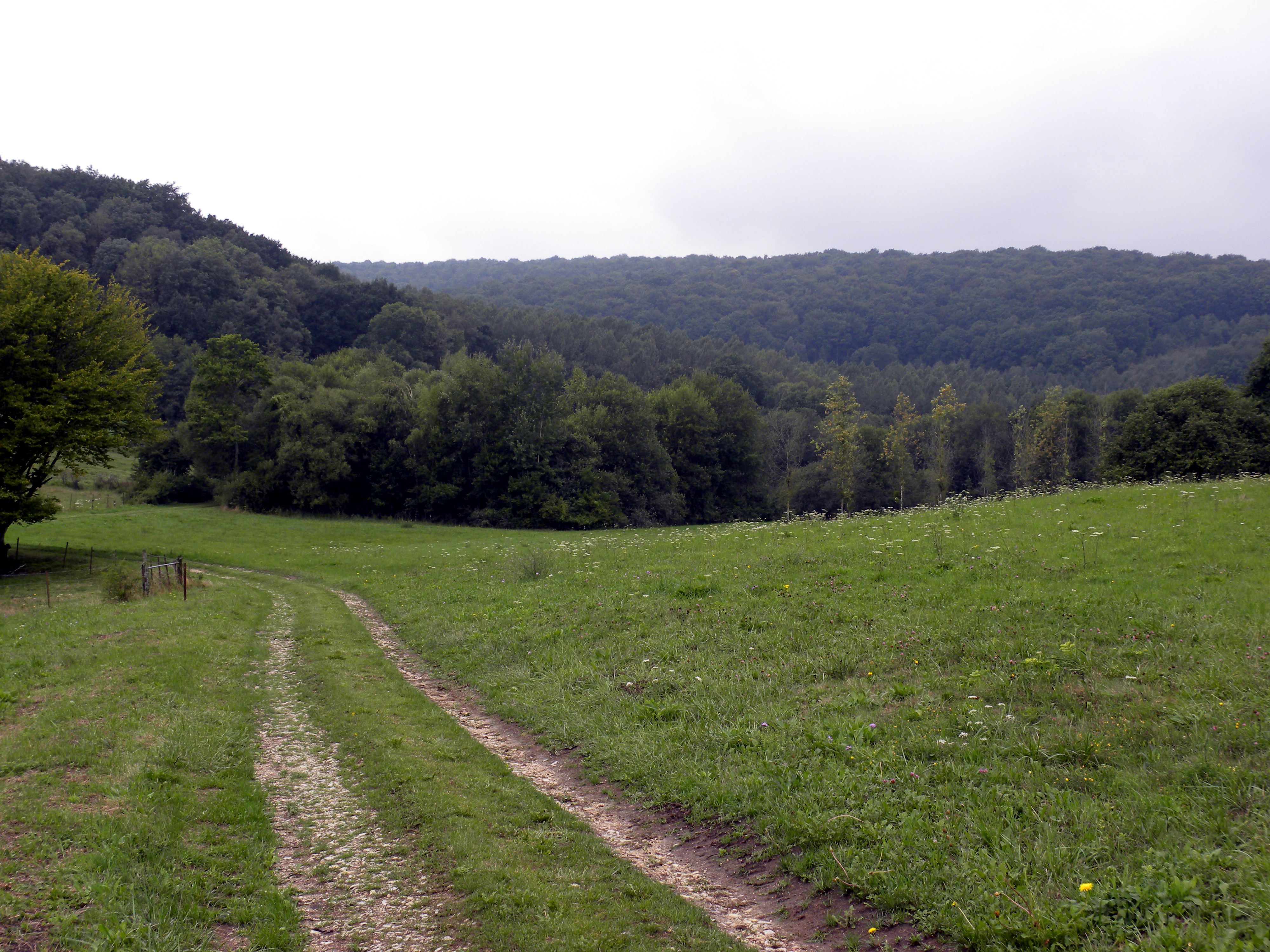 Valley near Chatel Chéhéry where Sergeant York did his heroics.